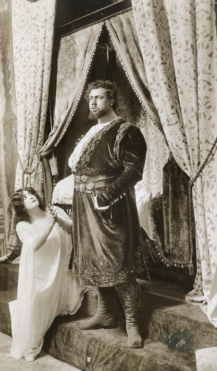 Frances Alda (1879-1952 ; soprano) as Desdemona and Leo Slezak (1873-1946 ; tenor) in the title role of Verdi's Otello